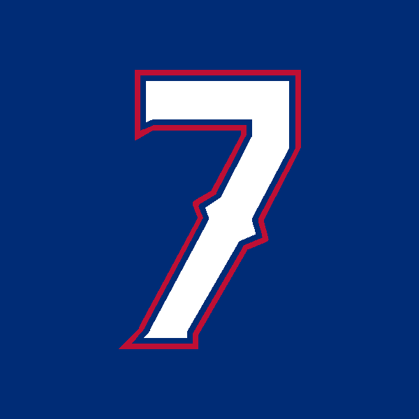 The number "7", retired for Iván Rodríguez by the Texas Rangers.